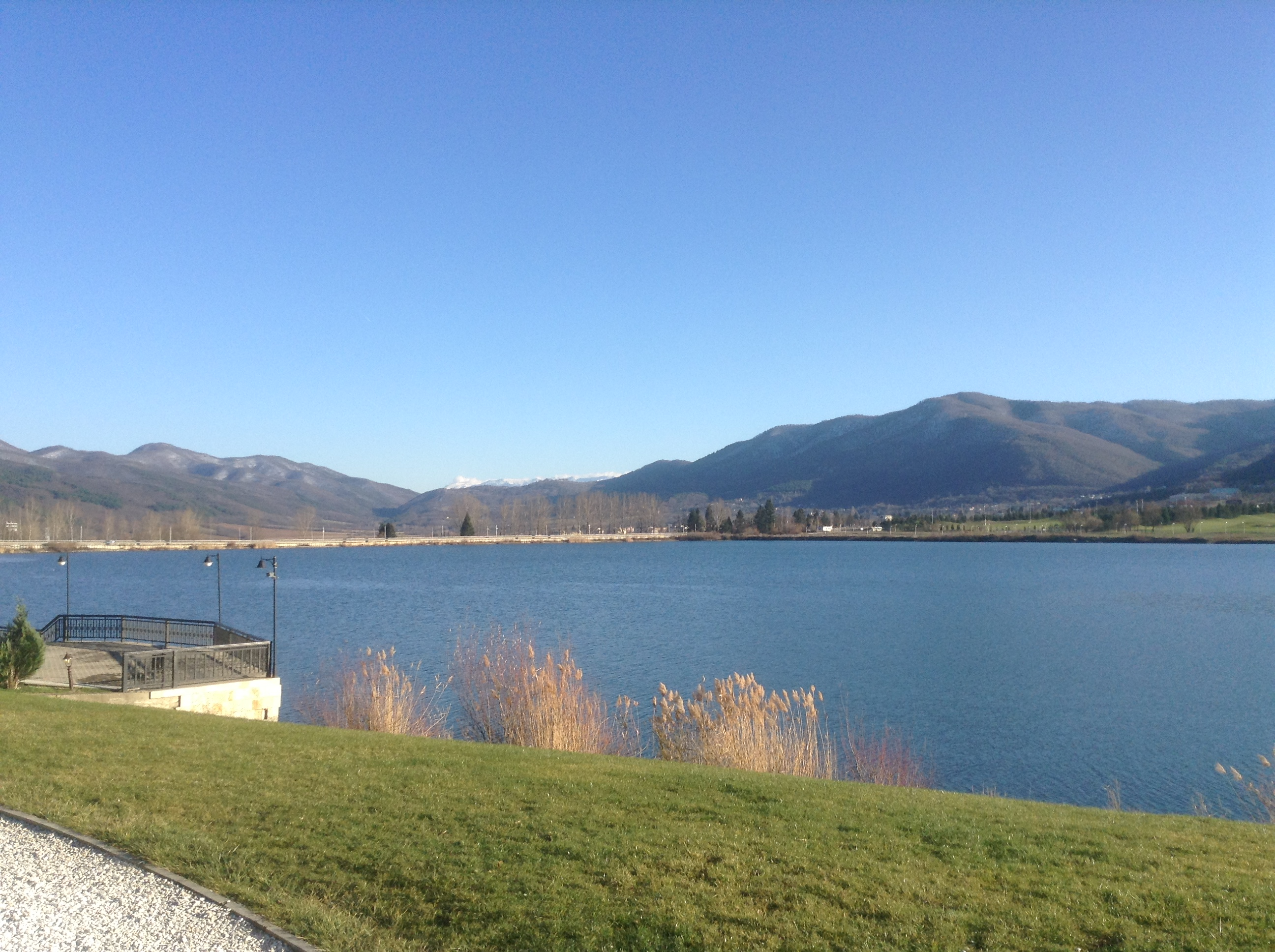 Pravetz lake